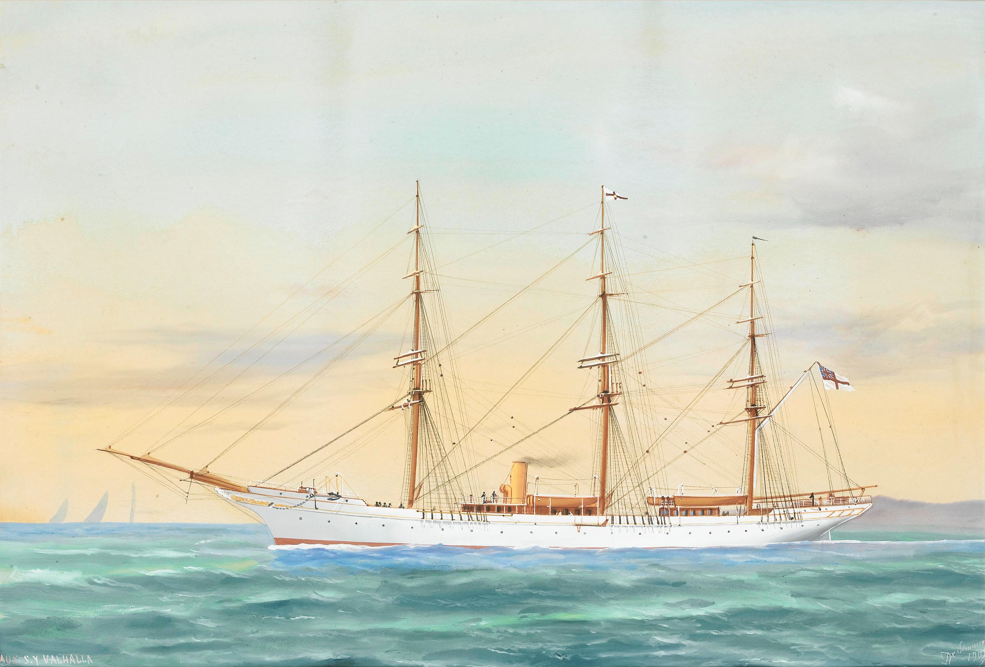 The auxiliary steam yacht Valhalla (1892) in 1901 by Antonio de Simone